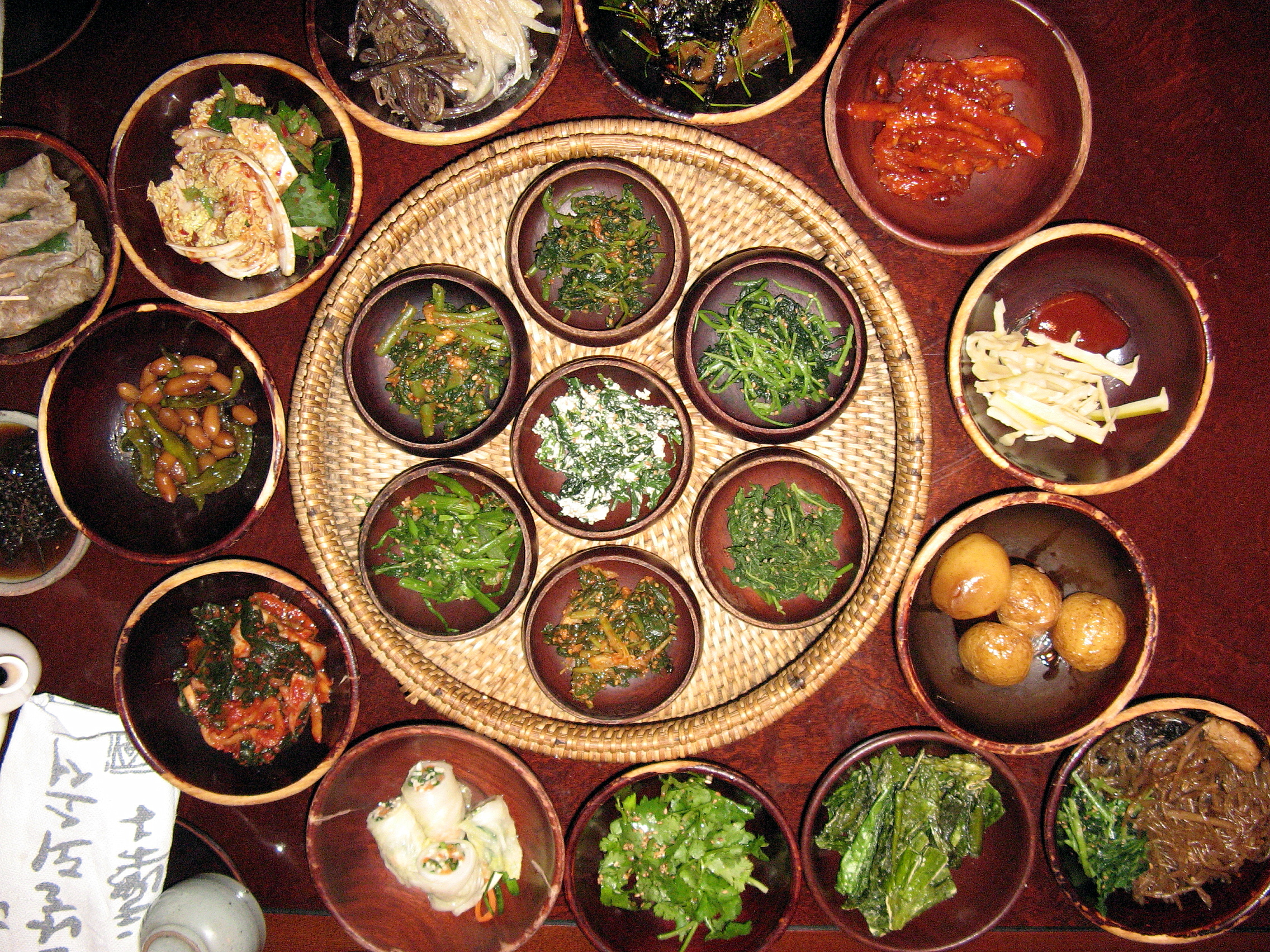 Korean temple dishes at Sanchon in Insadong, Seoul, South Korea.